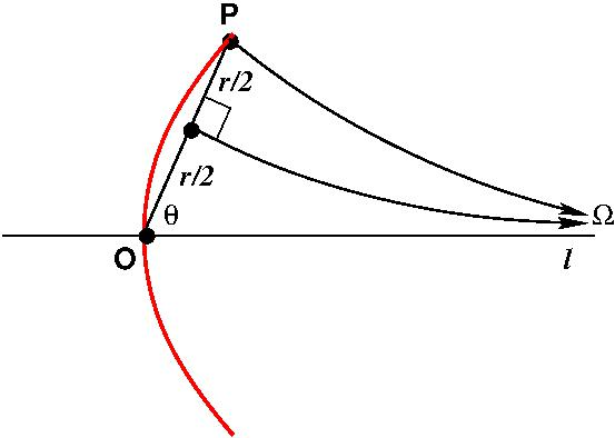 Equation for horocircle in polar coordinates.